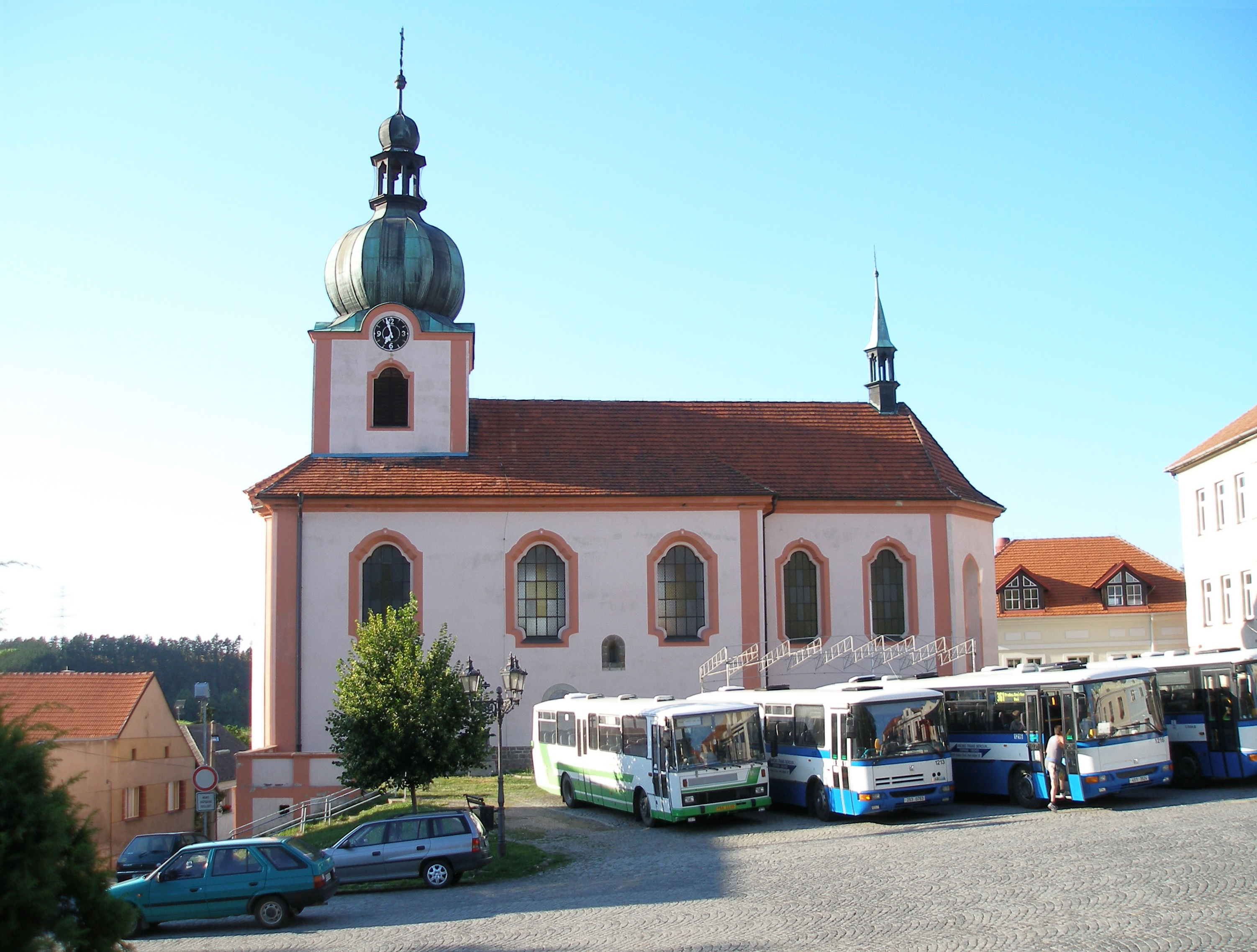 St. Nicholas Church in Nový Knín